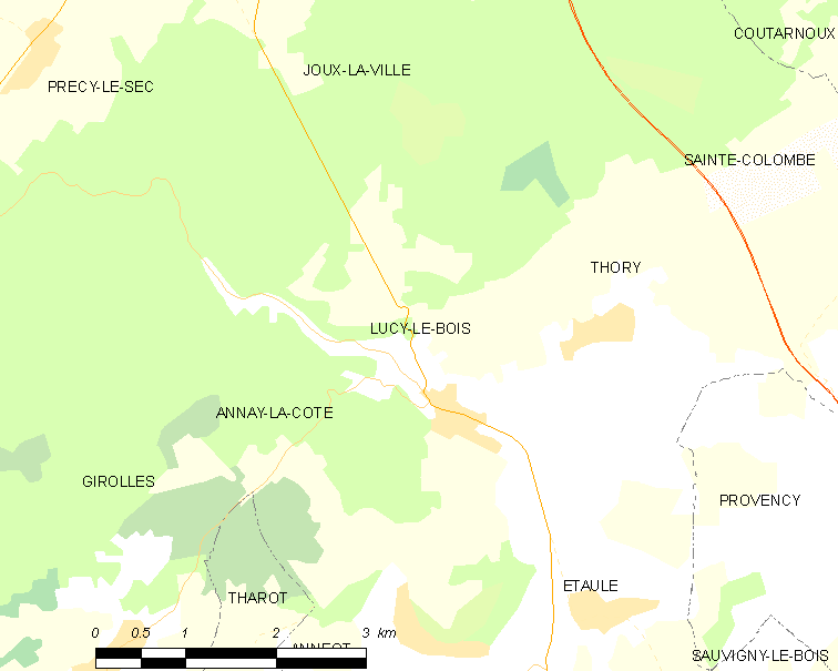 Map of French municipality Lucy-le-Bois